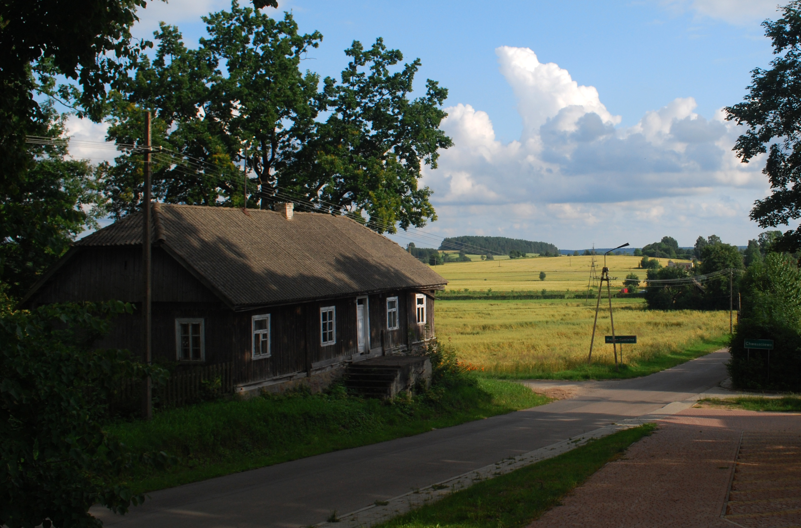 This photo from Podlaskie Voievodeship was taken during Polish Wikiexpedition 2009 set up by Wikimedia Polska Association. The making of this document was supported by Wikimedia Polska. Chałupa w Majewie Kościelnym.